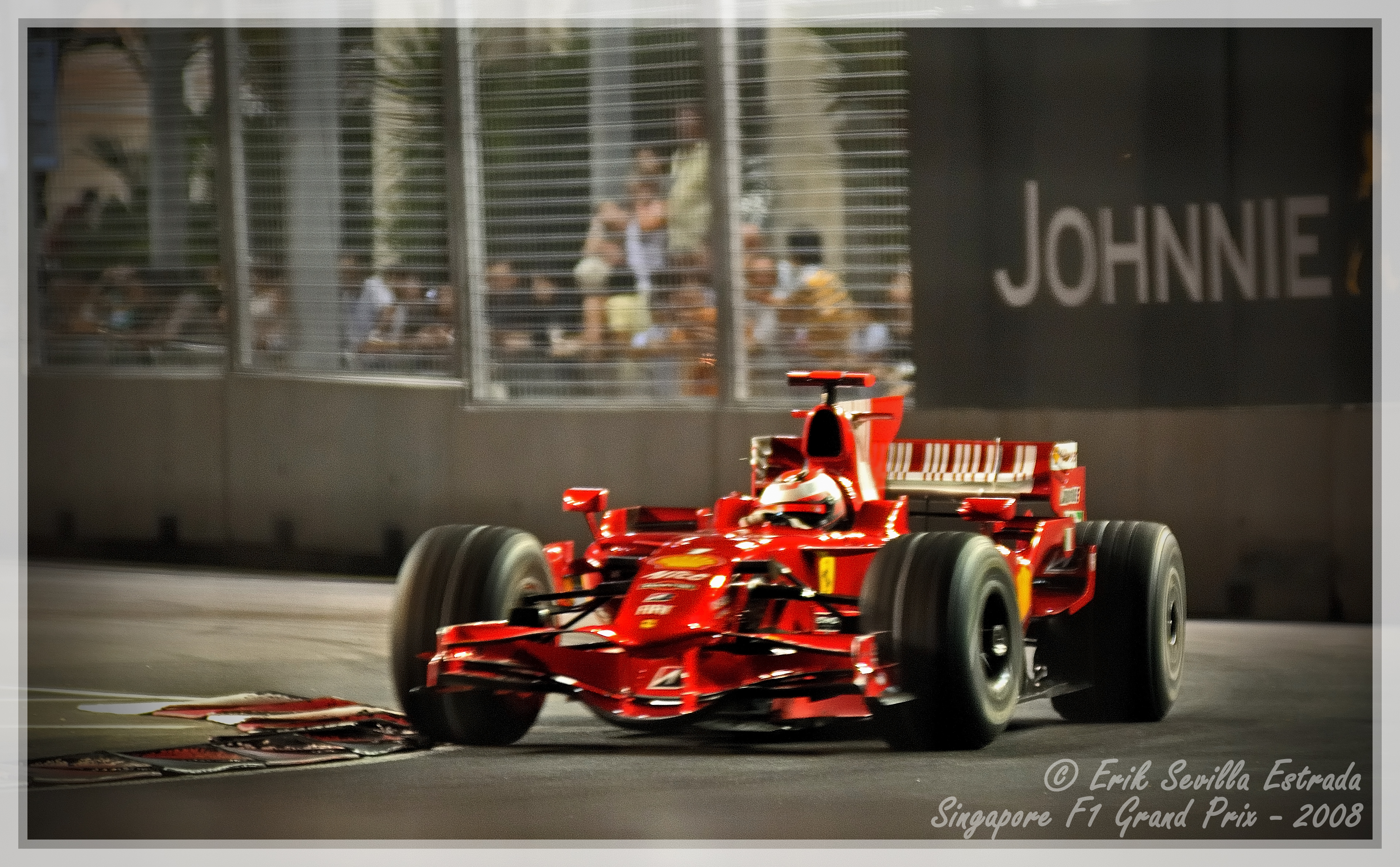 Kimi Räikkönen Team : Scuderia Marlboro Ferrari Location : Singapore Grandprix 2008 Sector : Turn 10